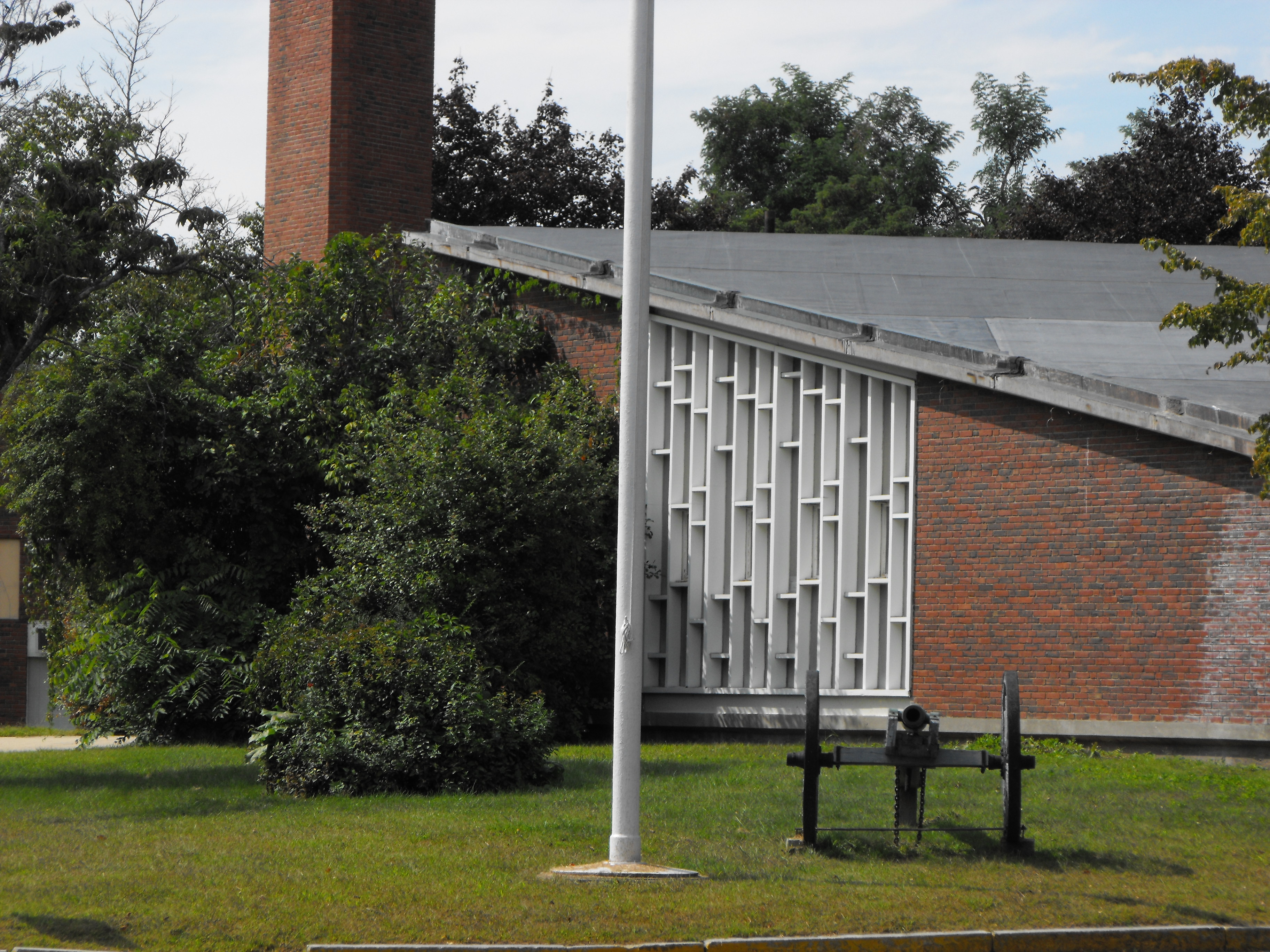 Quinn Safety Building, Methuen Massachusetts - Home of the Methuen Police Department.